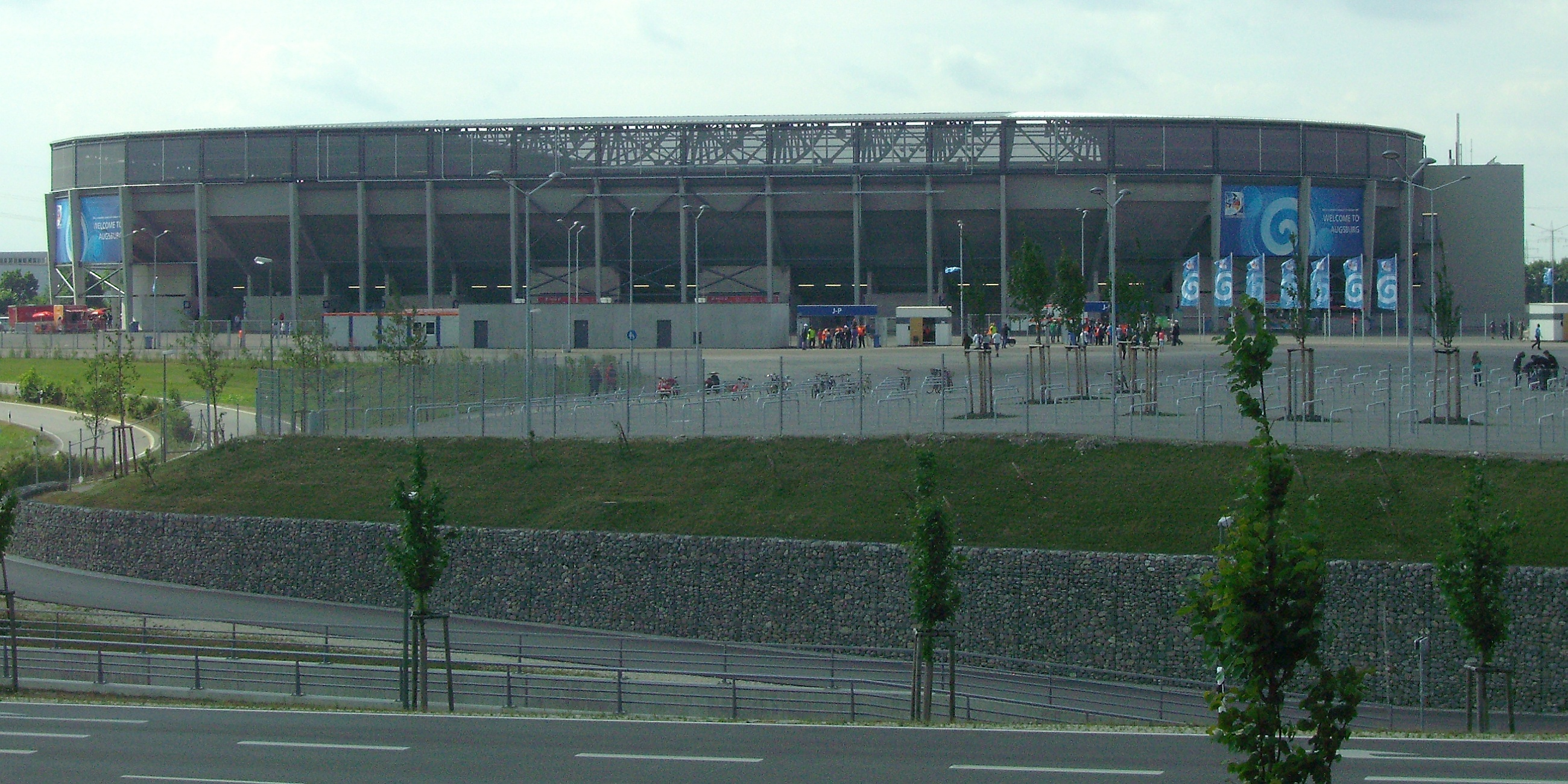 Impuls Arena as “FIFA Women's World Cup Stadium Augsburg” at 2010 FIFA U-20 Women's World Cup from North, including access roads